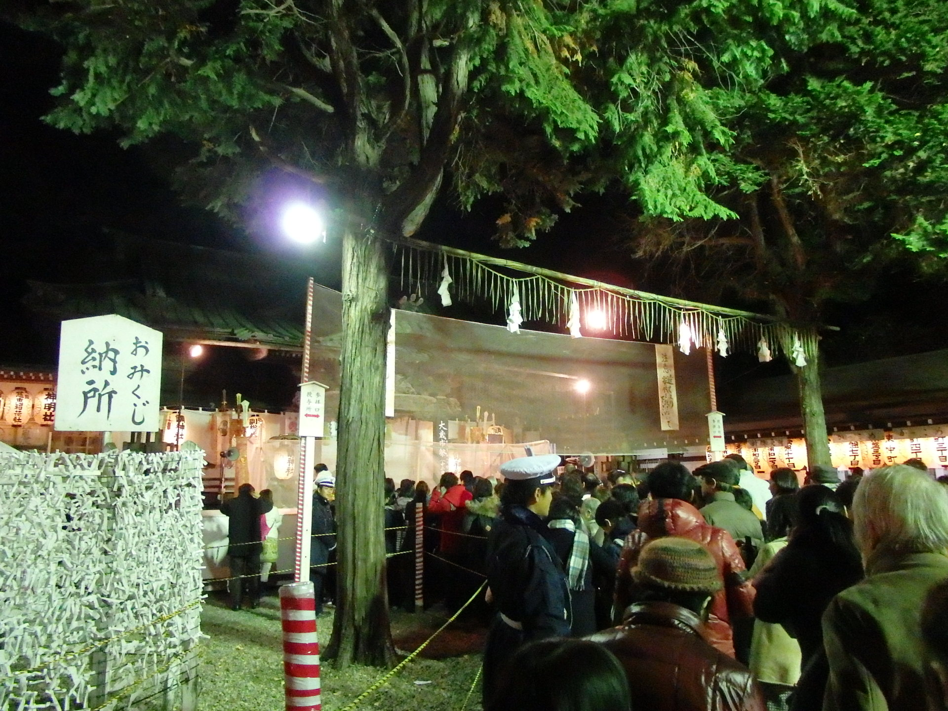 Juninchi-machi festival at the Tsuki Shrine in Saitama City, Japan